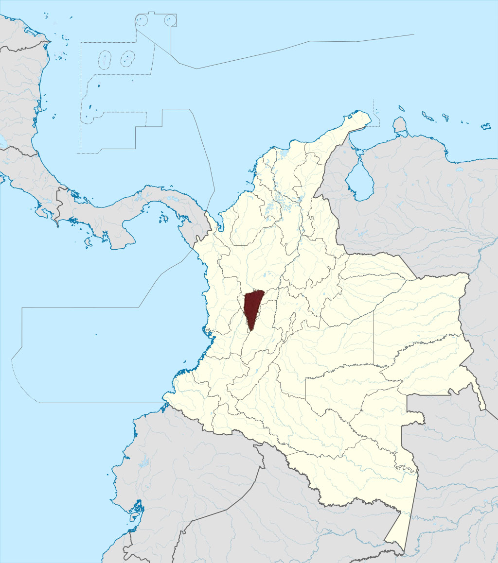 Historical territory of the Quimbaya civilization